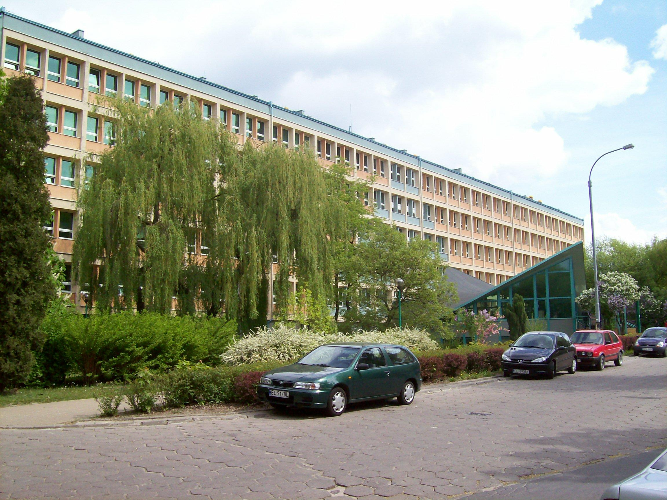 Building A - Faculty of Biology and Environmental Protection, University of Lodz - May 2009